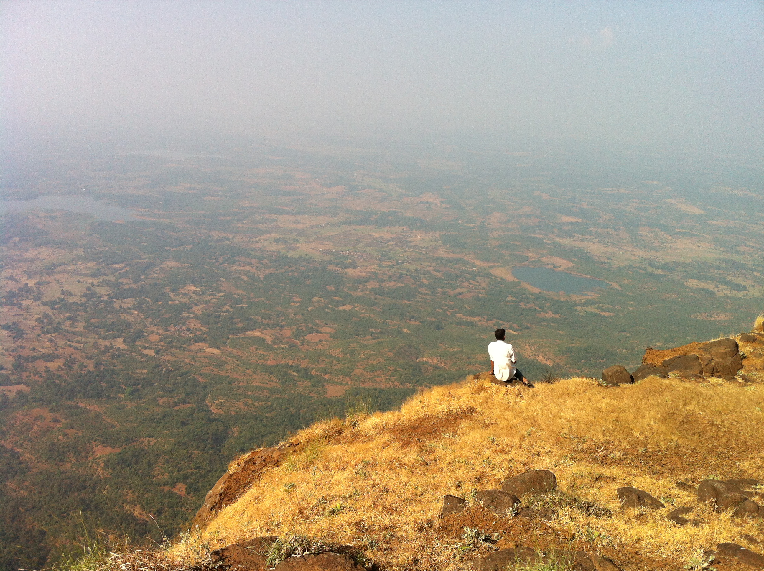 lonely man